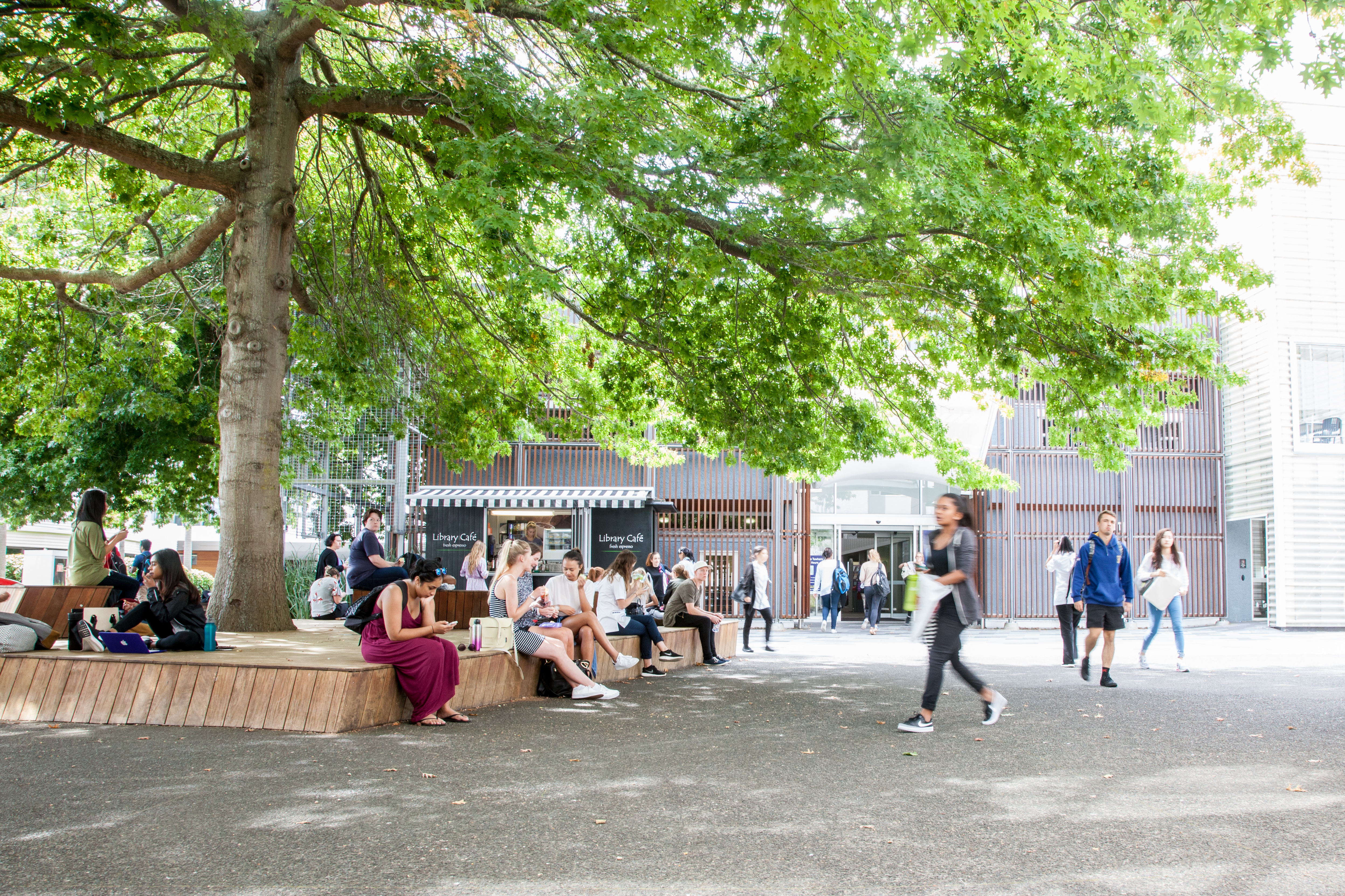 Outside at North Campus